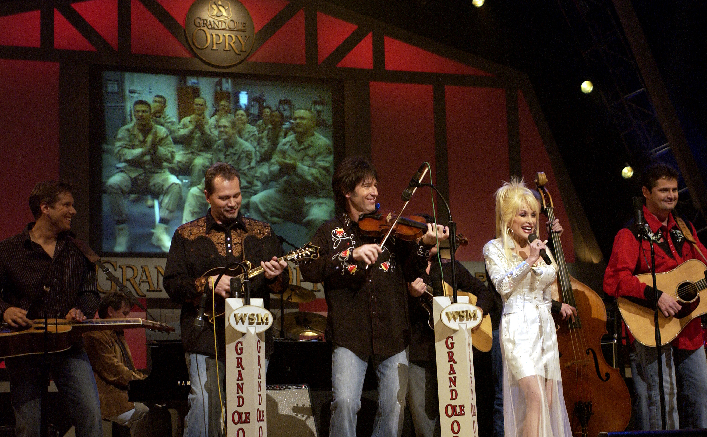 Country star Dolly Parton sings on stage during a Grand Ole Opry live broadcast in Nashville, Tenn., April 23 as U.S. soldiers watch the show via a video feed in Iraq.